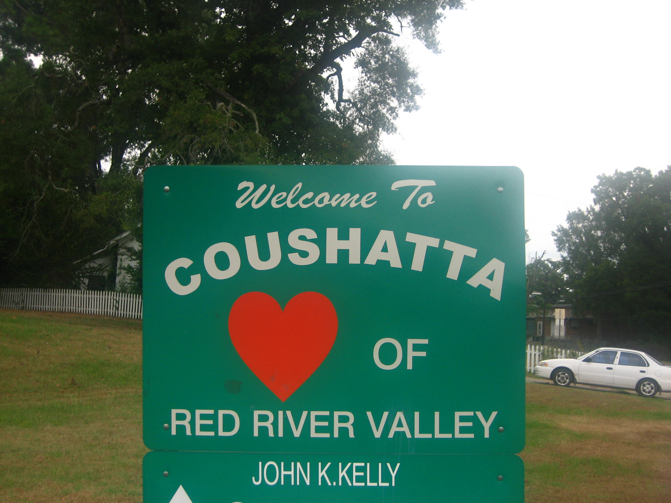 Coushatta LA, Sign